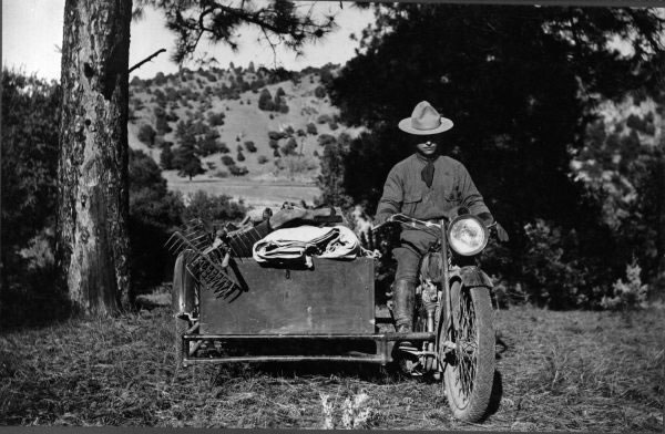 1917—A motorcycle van for transporting fire equipment. With forest trails typically only three feet wide, the motorcycle must have been a good compromise between horse and trucks. Gila National Forest. Photo by O. F. Arthur FS #32683